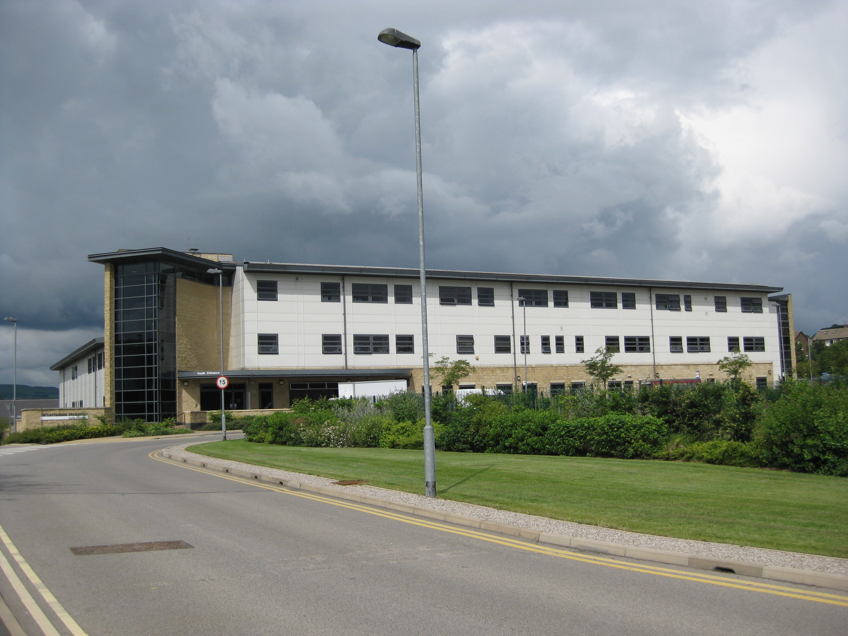 Wharfedale Hospital, Newall Carr Road, Otley LS21 2LY